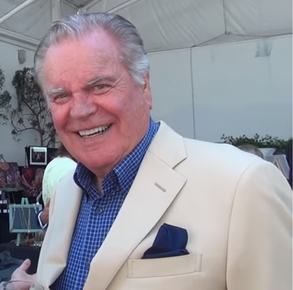 What brings legendary actor Robert Wagner out with his daughter Katie Wagner? Robert and Katie talk about Robert's tv show "NCIS", Paul Newman and racing, Burt Bacharach and writing about old Hollywood. Interview by Sulinh Lafontaine for MBN Newsvideoweb at Doris Bergman's 4th Annual Style Lounge & Party gifting suite in celebration of Emmy® Season.